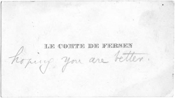 A visiting card from Jacques d'Adelswärd-Fersen: "LE COMTE DE FERSEN hoping you are better."